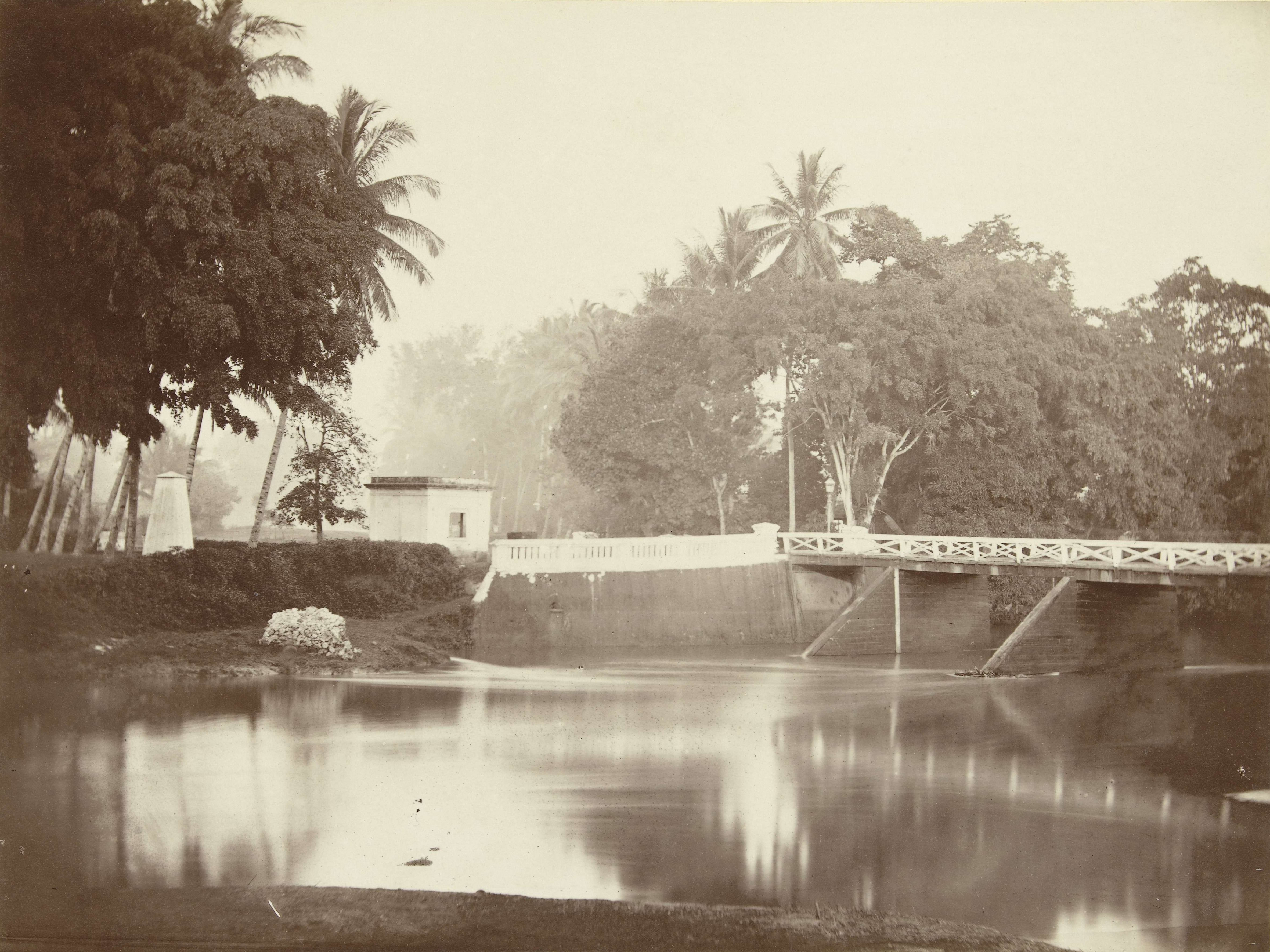 Photograph of Ciliwung, 1864-1870, by Jacobus Anthonie Meessen. Gelatin silver print on paper, measures 150 by 198 millimetres (5.9 in × 7.8 in).